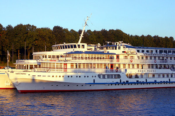 Karl Marks in Moscow (2005)